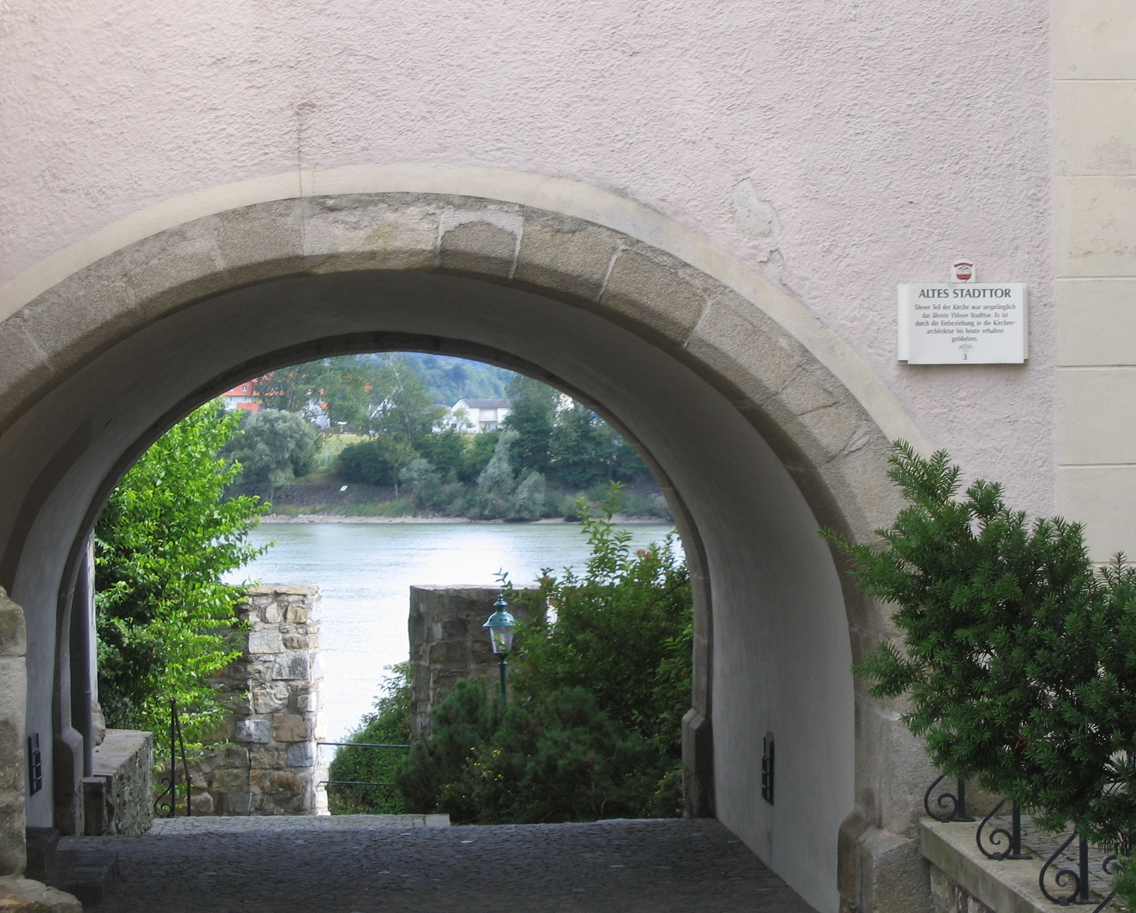 Ybbs an der Donau, Austria, view through old town gate to the river Danube